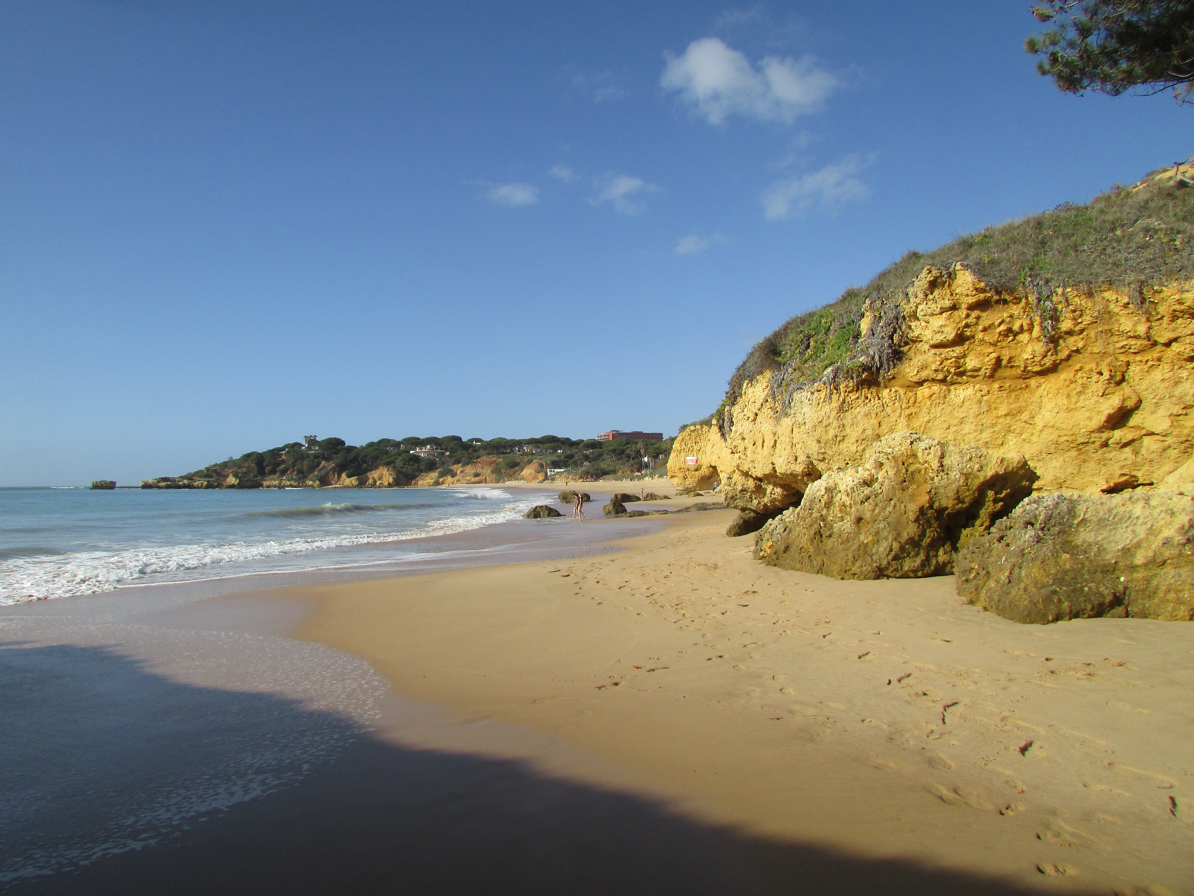 Looking west along Praia da Balaia (east). This beach is located east of the city of Albufeira, Algarve, Portugal.